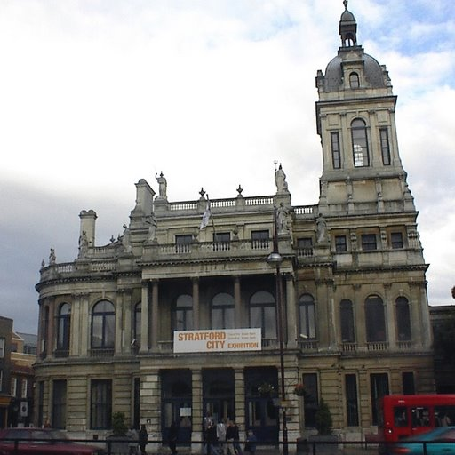 Old Town Hall of Stratford district, in the London Borough of Newham, England. 19th-century building in the Beaux-Arts Second Empire architecture style.